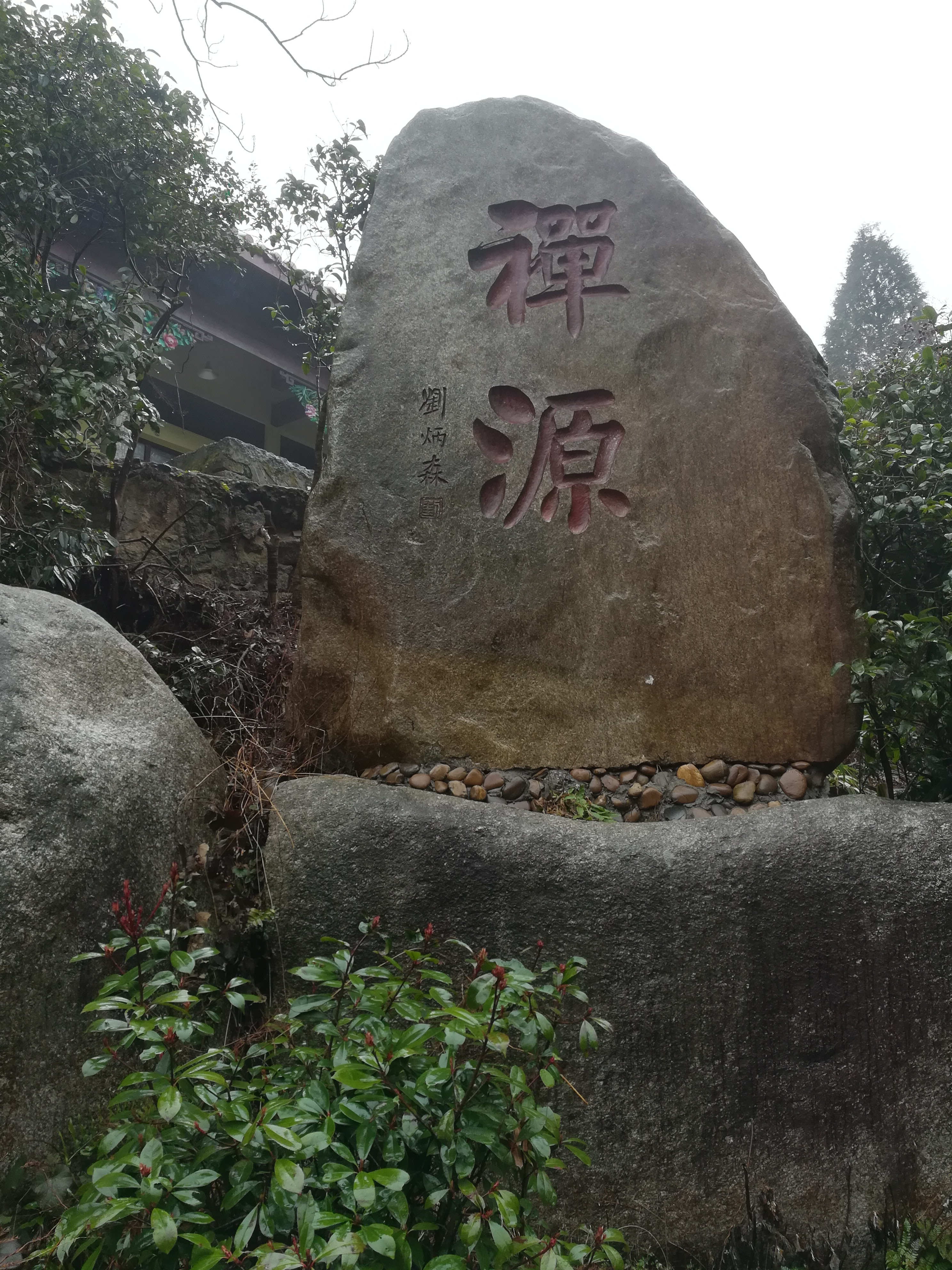 The stone inscription "Chan Yuan" on Mount Heng. It was written by calligrapher Liu Binsen (c. 1937-2005).